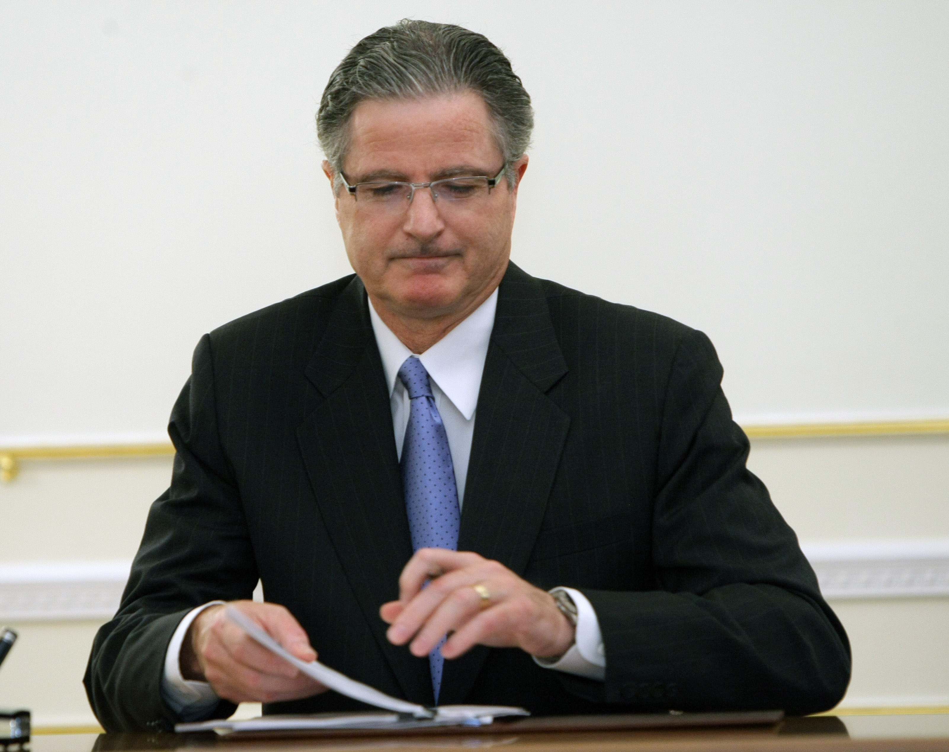 Chevron Chairman and CEO John Watson signed two agreements in the presence of Prime Minister of Russia Vladimir Putin